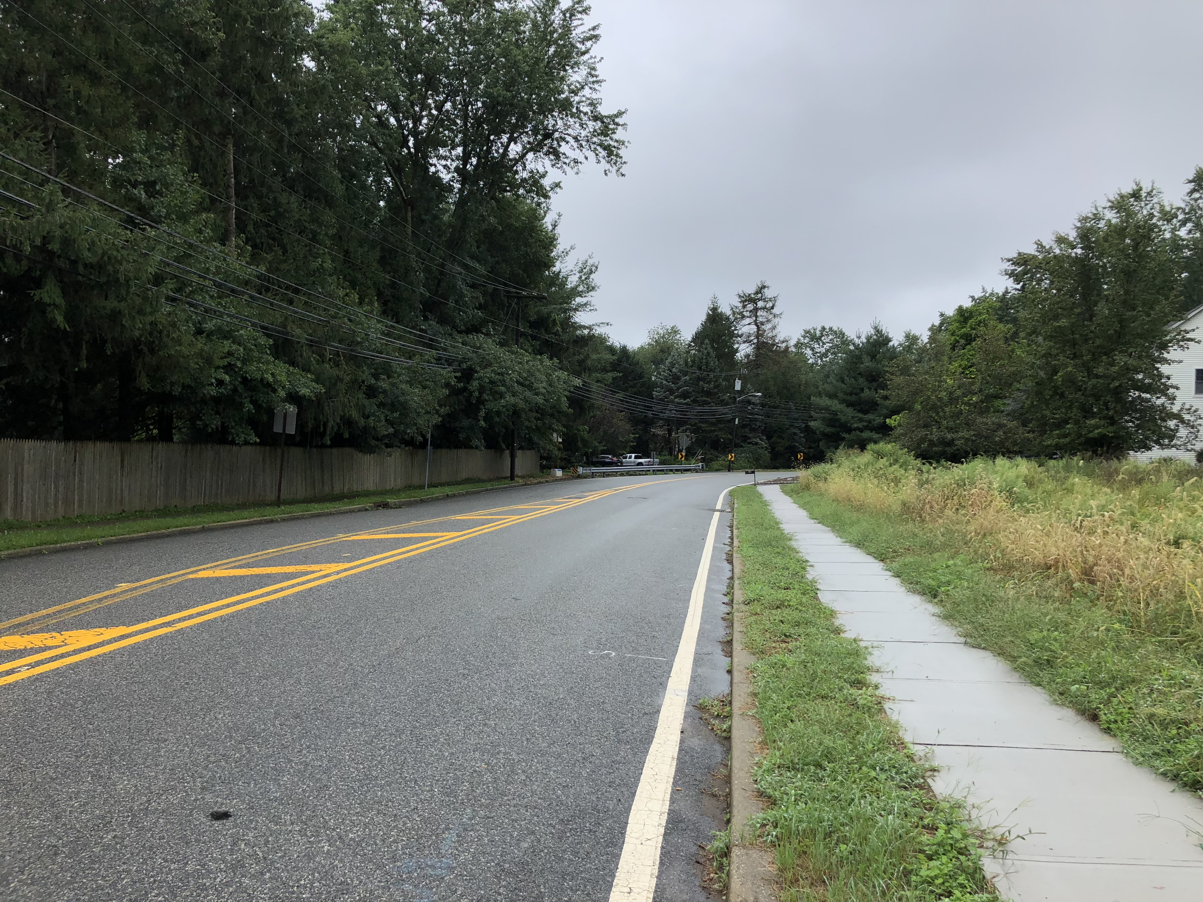 View west along Bergen County Route 116 (Old Tappan Road) just west of Bergen County Route 110 (Washington Avenue) in Old Tappan, Bergen County, New Jersey